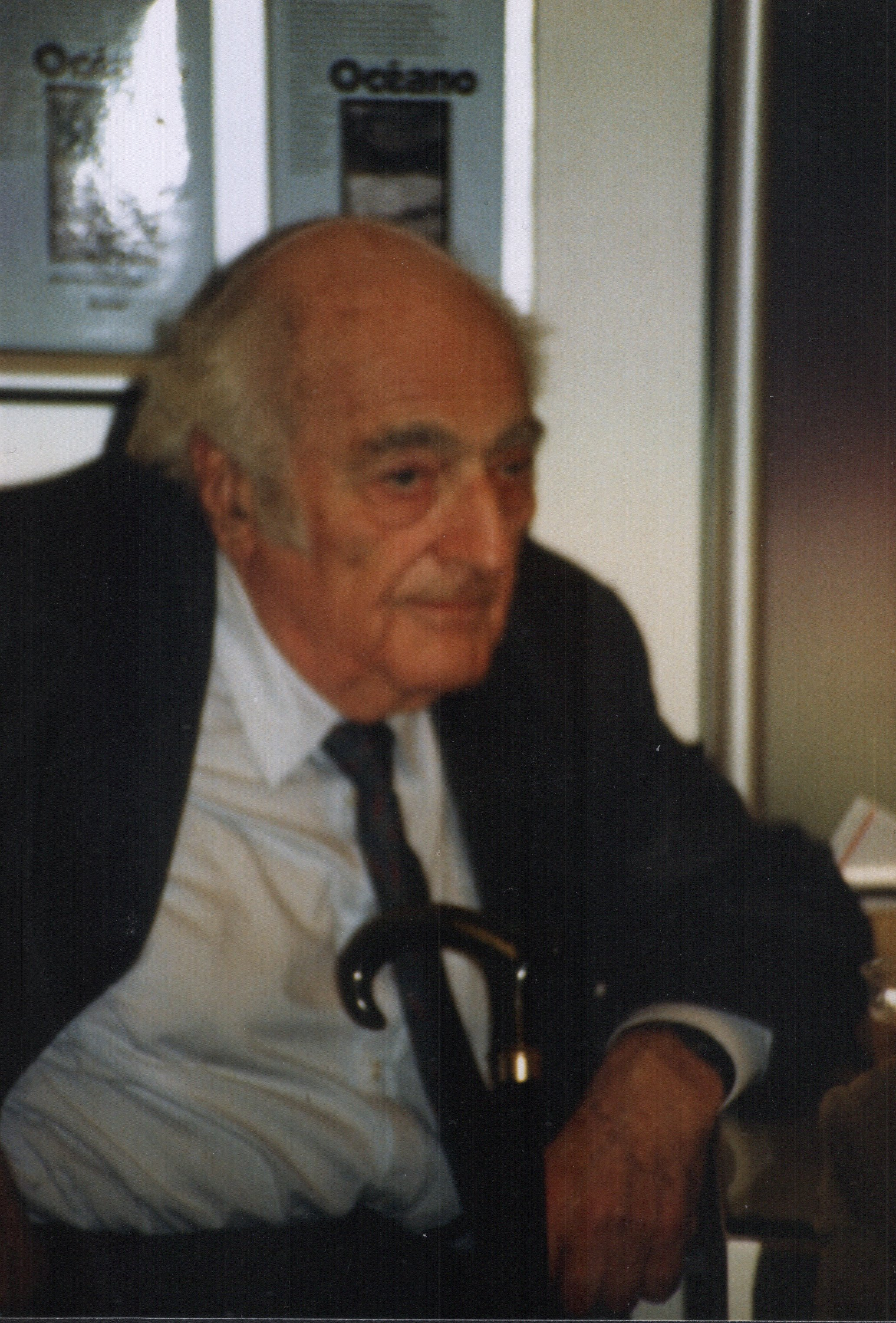 German Novellist Stefan Heym at a PR appearance at Frankfurt Book Fair